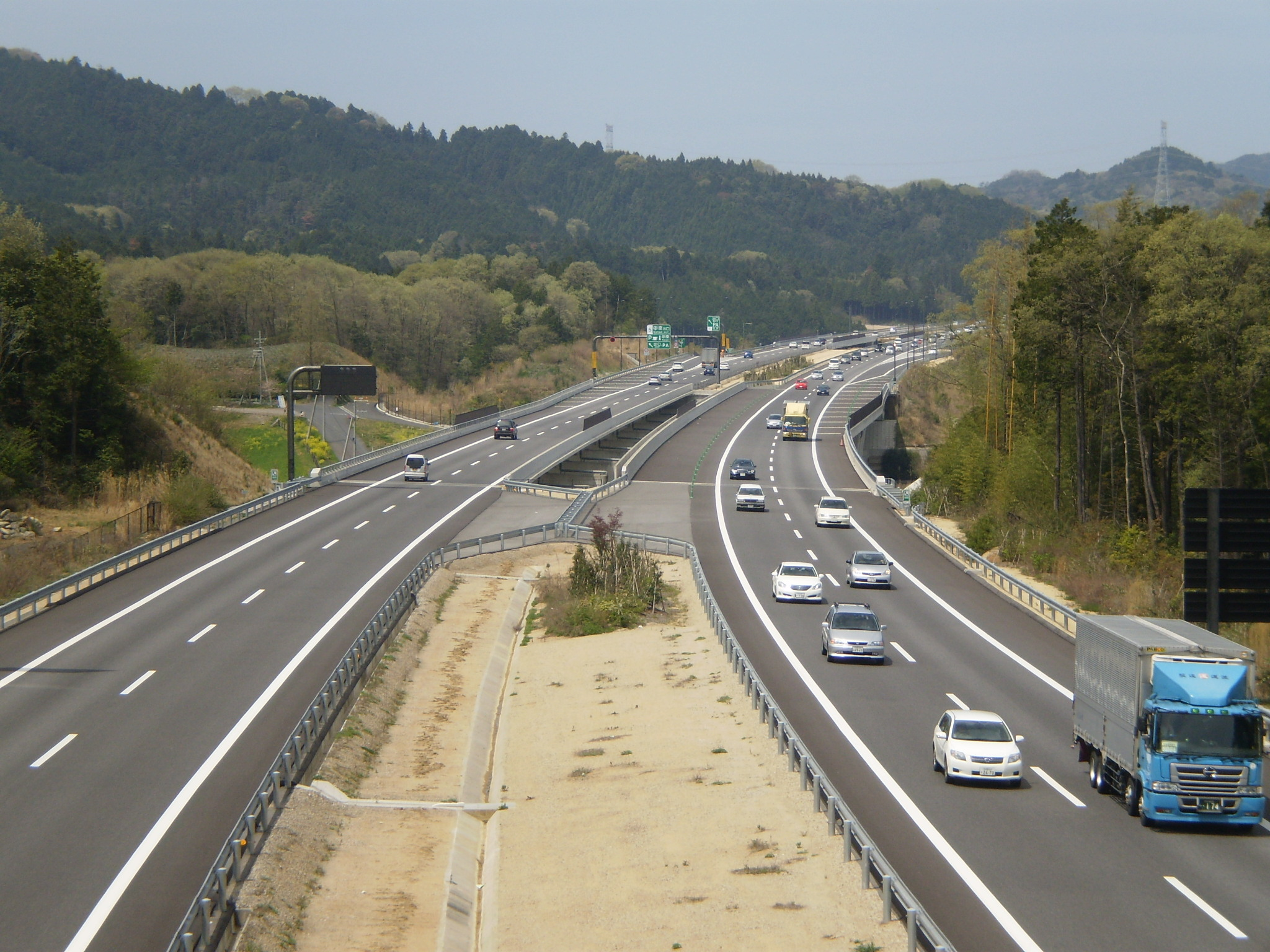 Shin-Meishin Expressway (From a Ryuboshi over bridge) I took this image at Ryuboshi Konan-cho Koka City Shiga Pref., Japan.